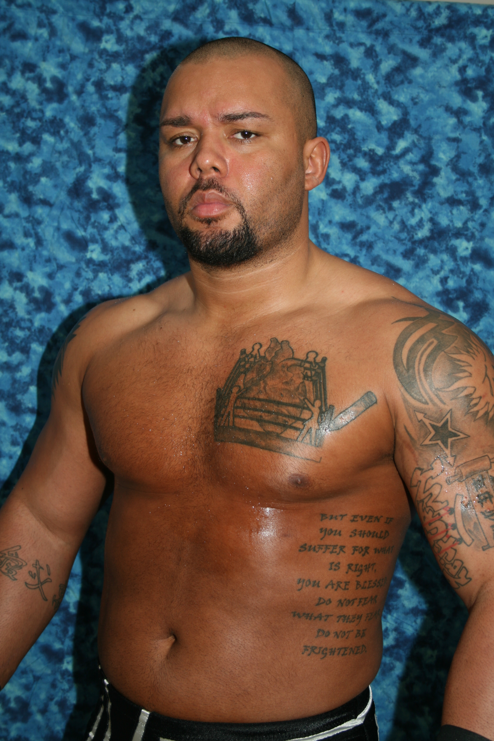 Jon Davis in February 2011. Photo by Jake Sposetta. Photographer has requested to be attributed.